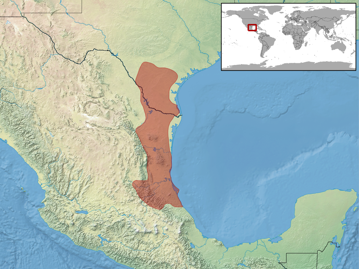 geographic distribution of Ficimia streckeri (Native: Mexico; United States)